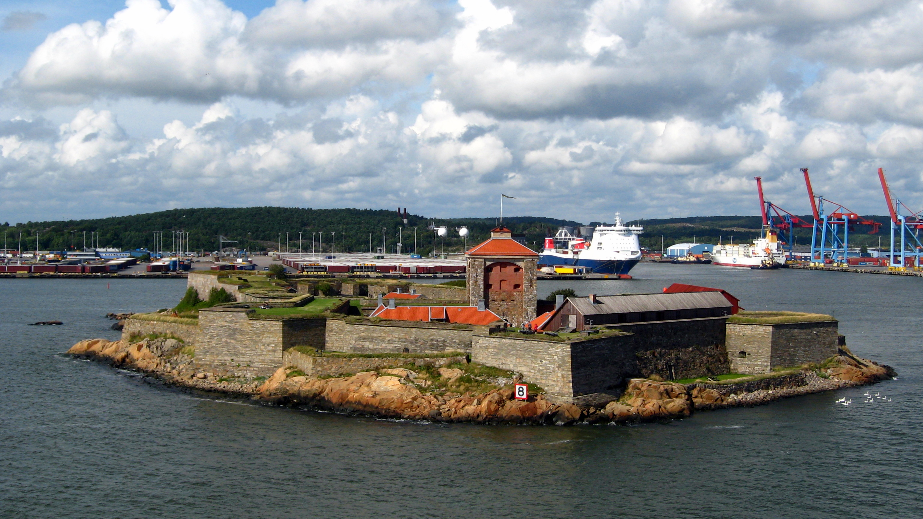 Älvsborg, also Elfsborg Fortress, a sea fortress located in today's Gothenburg, Sweden